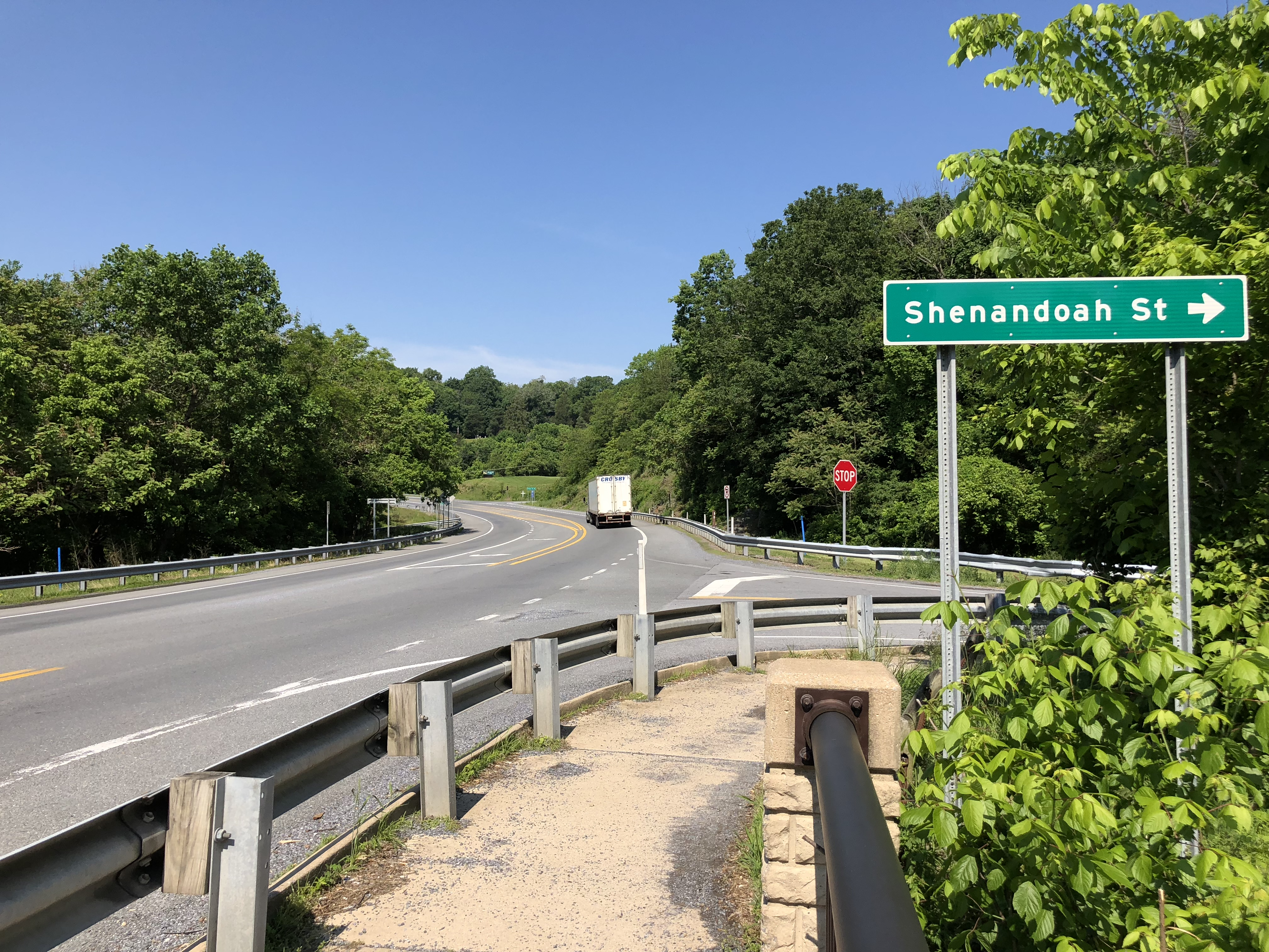 View south along U.S. Route 340 (William L. Wilson Freeway) at U.S. Route 340 Alternate (Shenandoah Street) in Harpers Ferry, Jefferson County, West Virginia